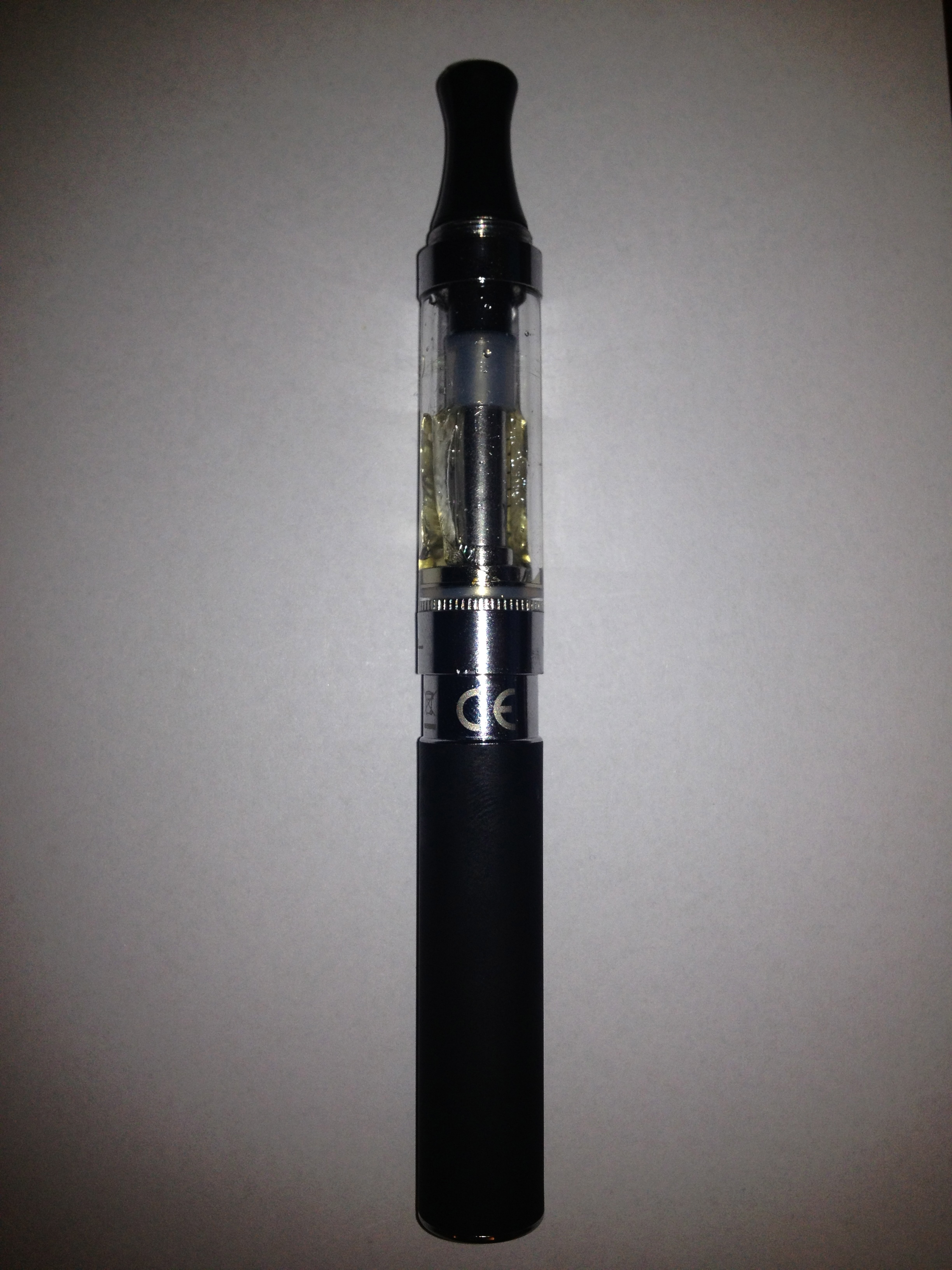 Picture of an ego type e-cigarette